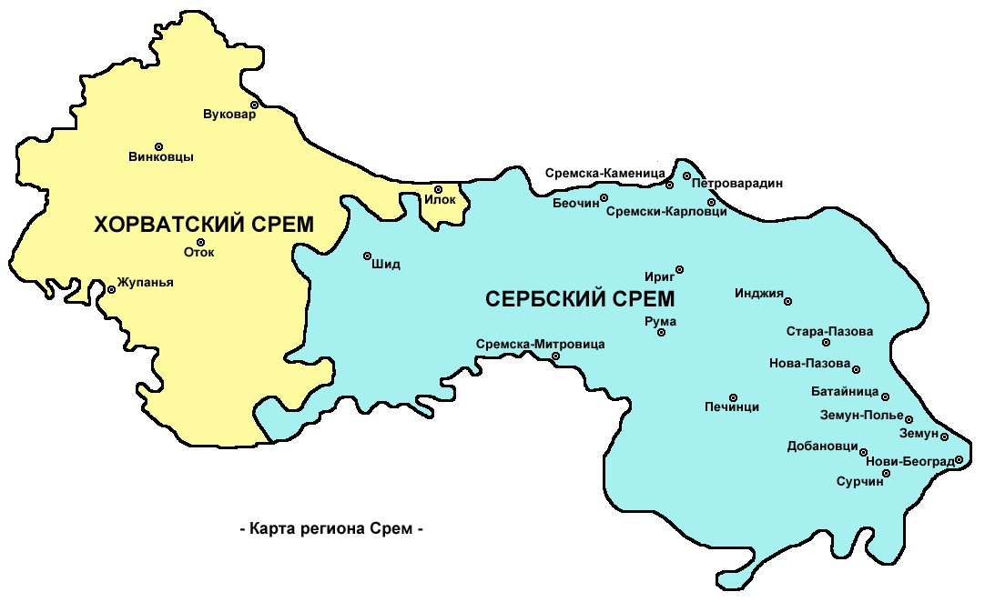 Map of Syrmia region - Russian language version.